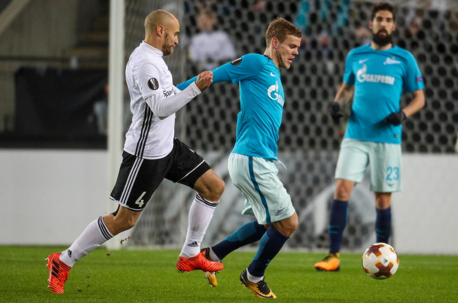 02.11.2017. Норвегия, Тронхейм, стадион «Леркендал». Лига Европы УЕФА 2017/18, 4 тур, «Русенборг» — «Зенит».